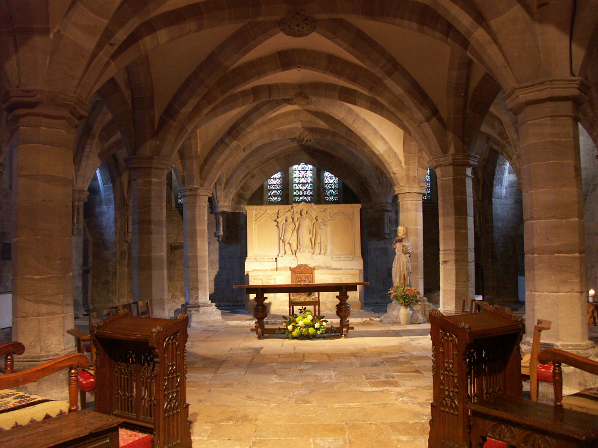 Hereford Cathedral, England